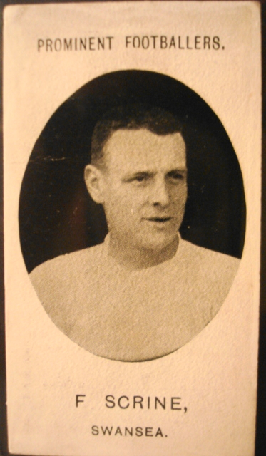 Fred Scrines, Wales international rugby union players, Swansea club